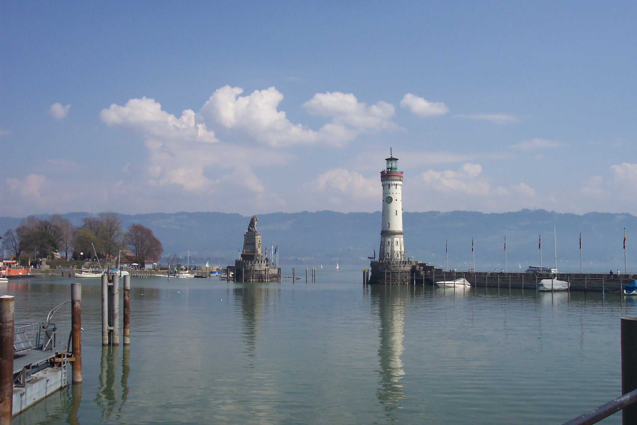 The harbour entrance of Lindau, Germany